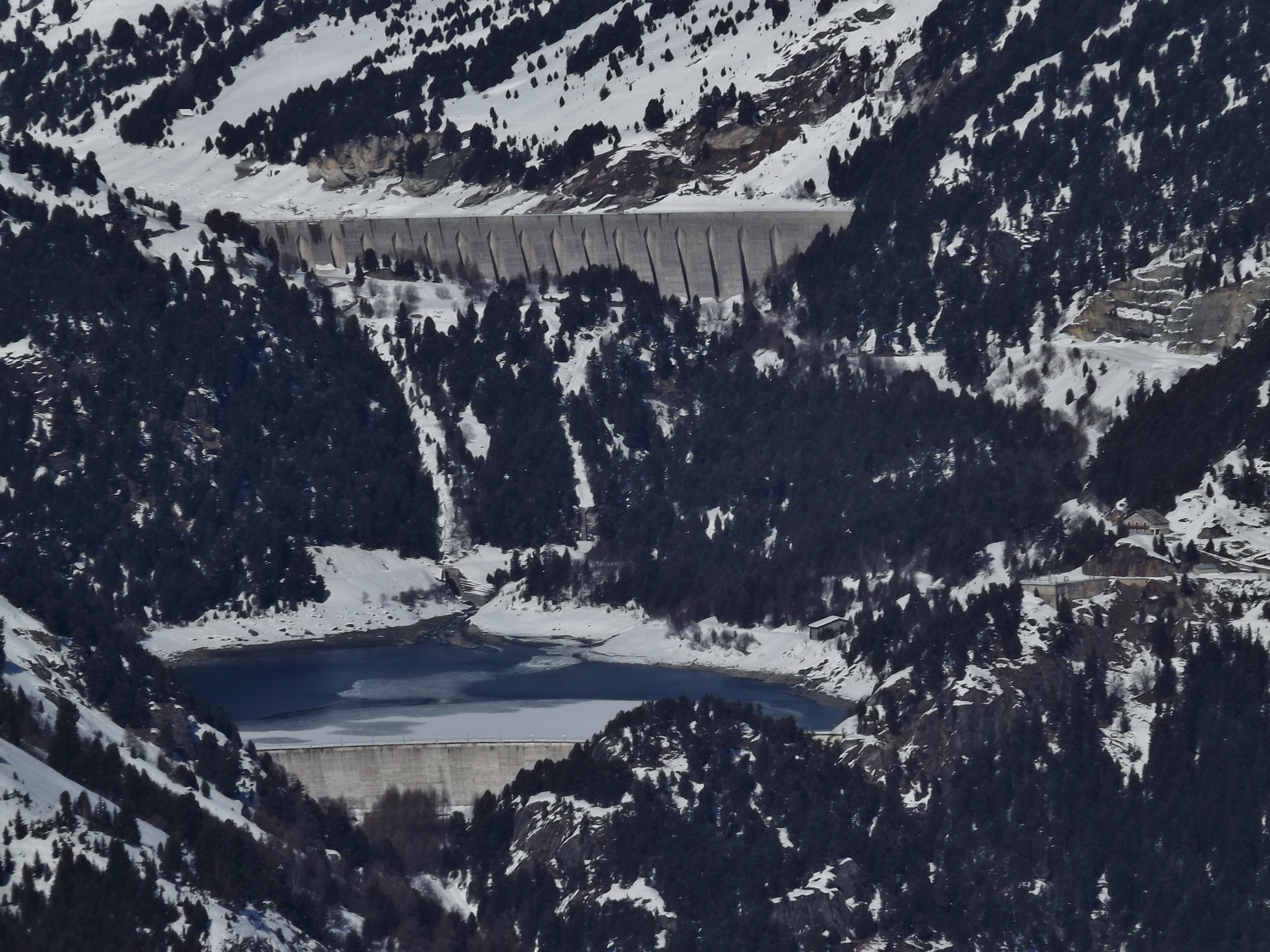 Panoramic sight, from the heights of La Norma ski resort, of both Plan d'Amont (up) and Plan d'Aval (down) dams, in Savoie, France.